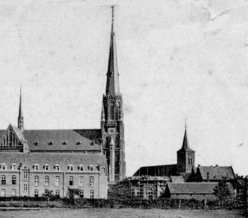 St. Anthony's church Blerick